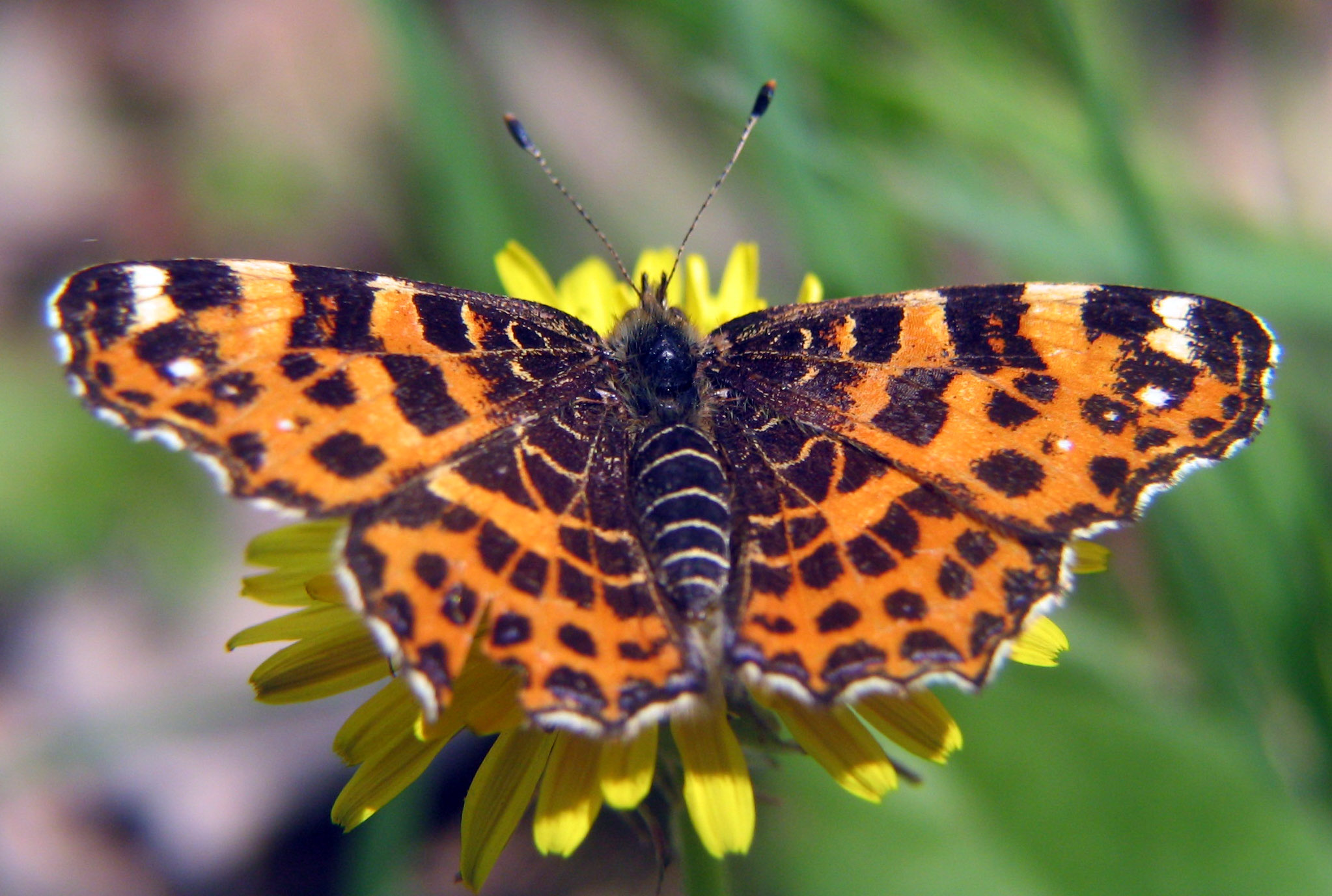 Araschnia levana, photographed in southern Romania, hilly area, found in a clearing near a river